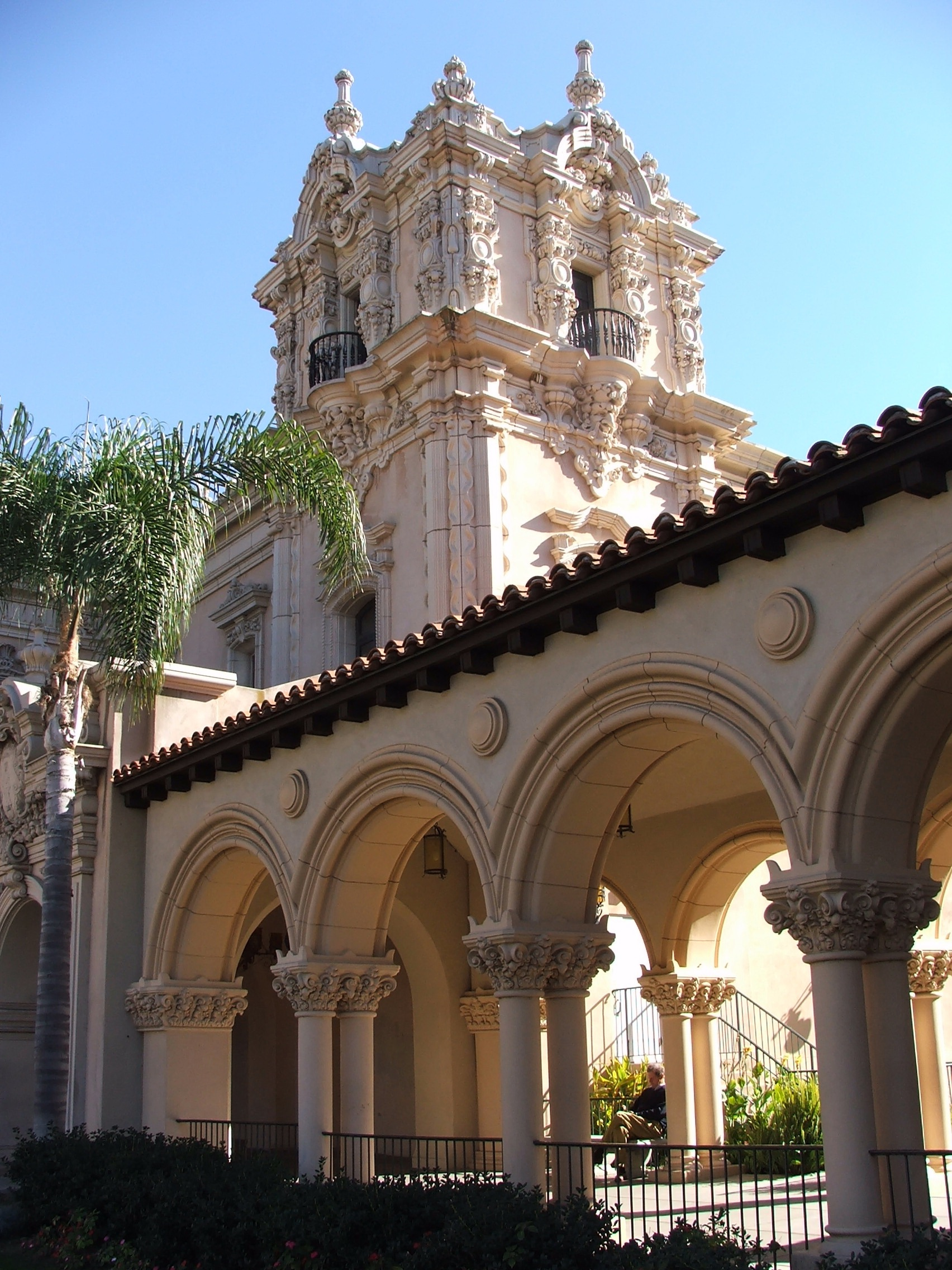 San Diego, California, Casa de Balboa building, originally the Commerce & Industries Building designed by Bertram Goodhue for the 1915 Panama-California Exposition.